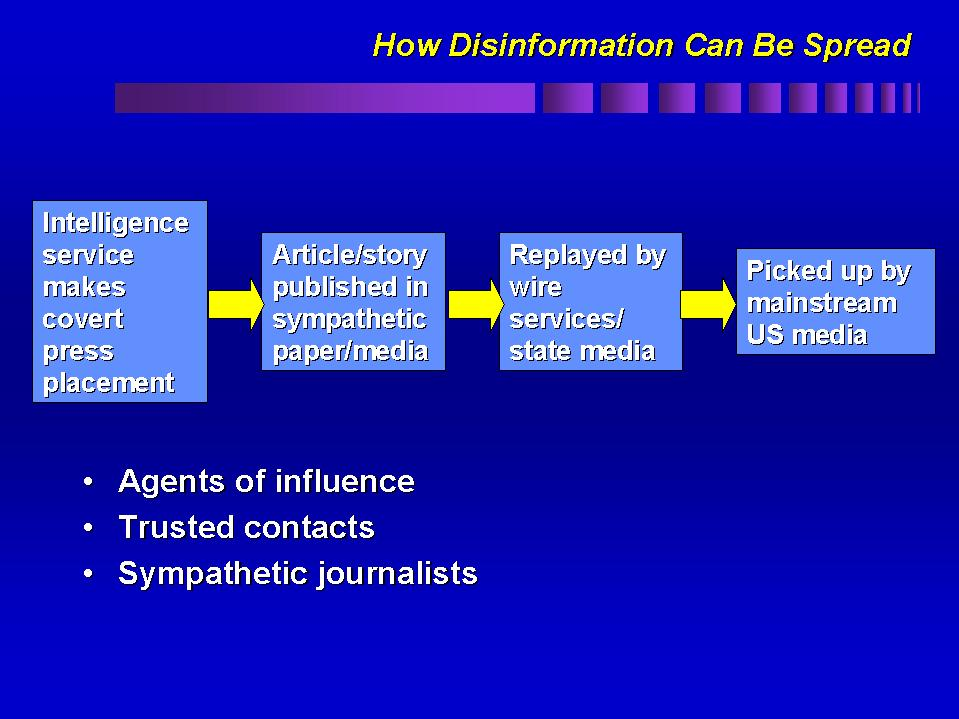 Graphic explaining how Disinformation can be spread.